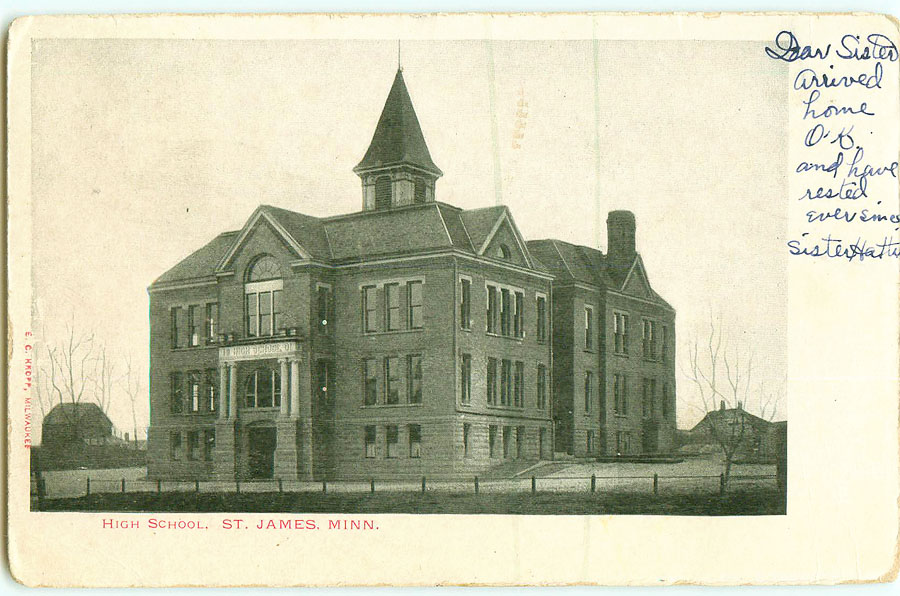 Postcard: St. James High School, St. James, postmarked 1906. Caption: "HIGH SCHOOL, ST. JAMES, MINN."; along side on front "E. C. KNOPP[?], MILWAUKEE" Opposite side of undivided back postcard has postmark from St. James, dated August 26, 1906